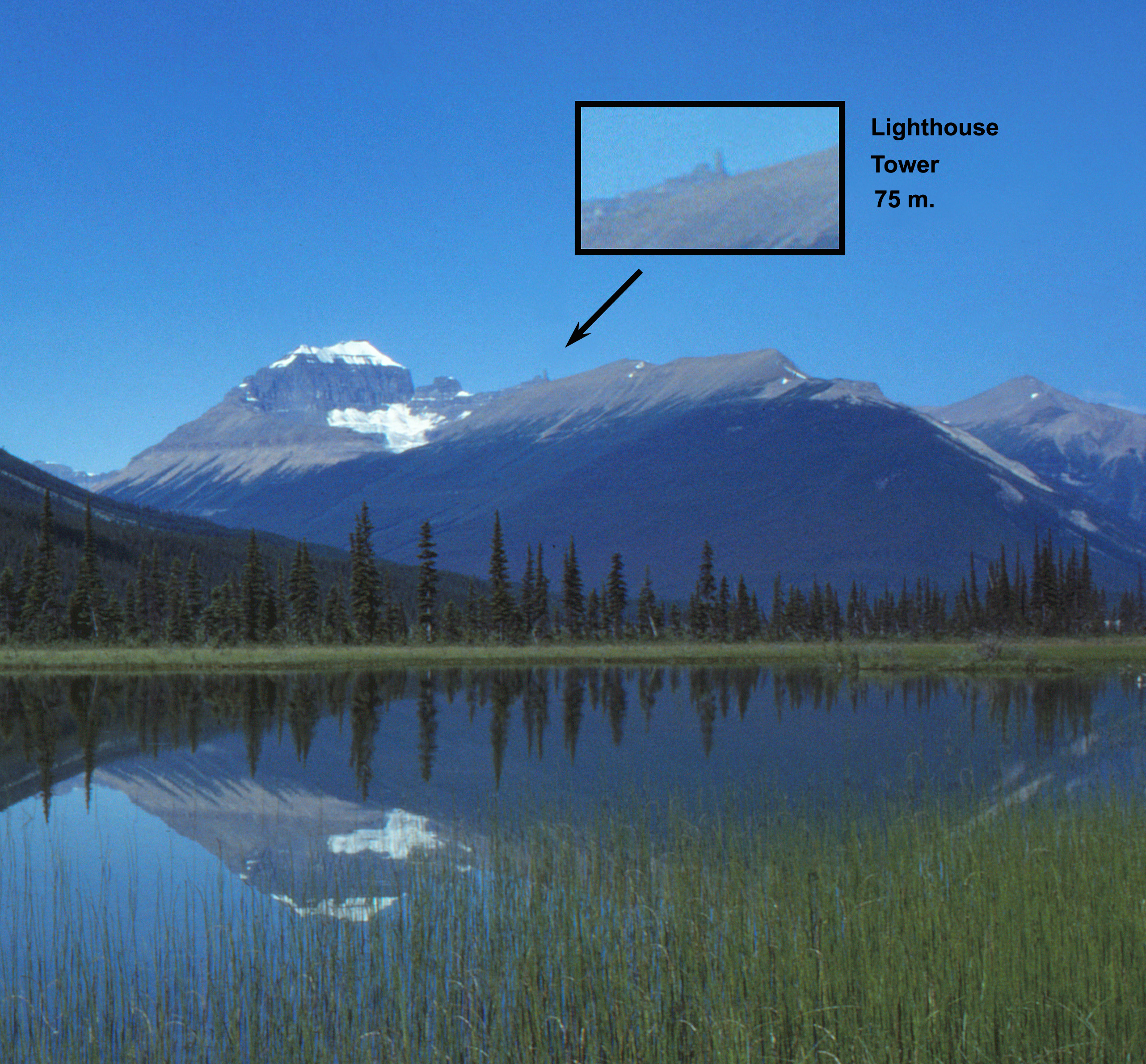 Mount Saskatchewan, Alberta, Canada, with inset showing magnification of Lighthouse Tower. (Digitized from portion of a Kodachrome taken in 1981 with Nikon F2S Photomic.)